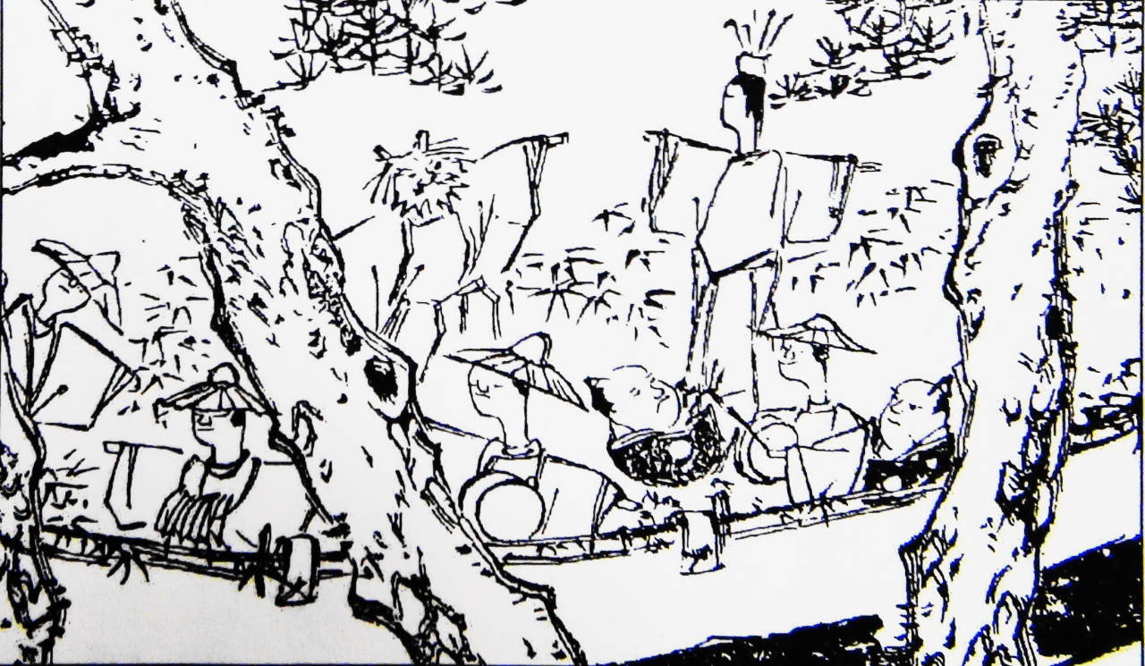 Painting of Tenzushi Festival Around 1850